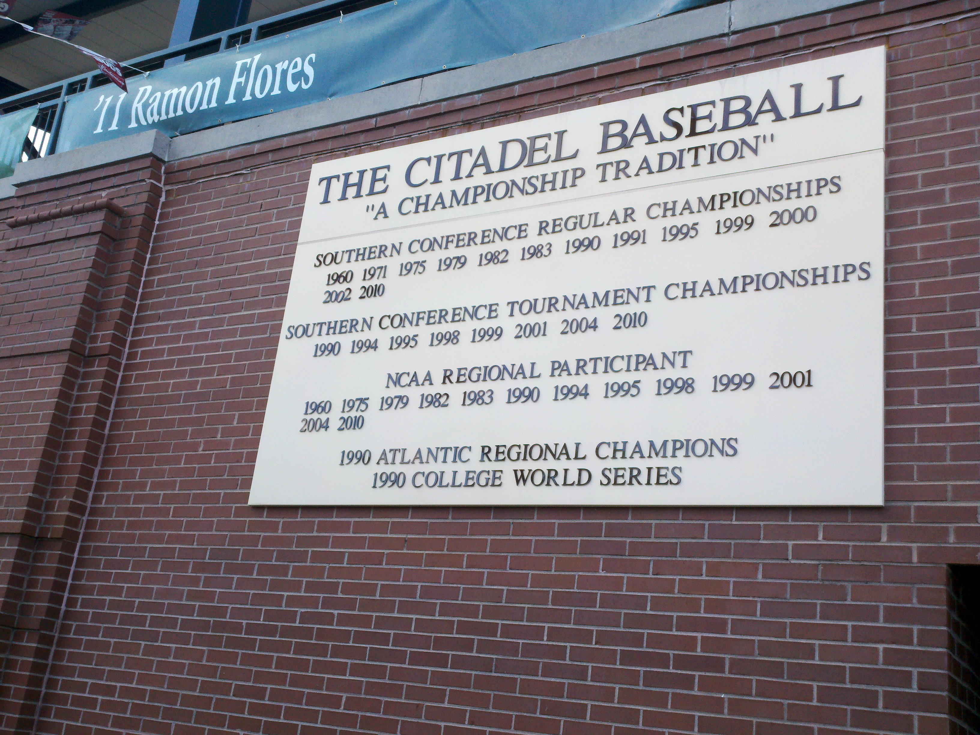 Plaque at Joseph P. Riley, Jr. Park detailing The Citadel baseball's accomplishments